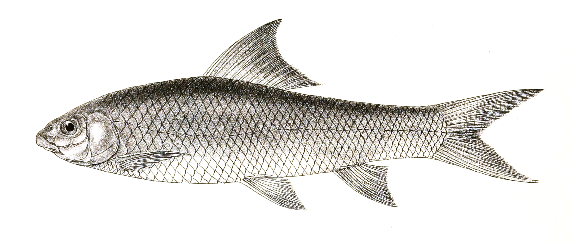 The species names / identity need verification - original names from plate are included here. The original plates showed the fishes facing right and have been flipped here. Labeo sindensis